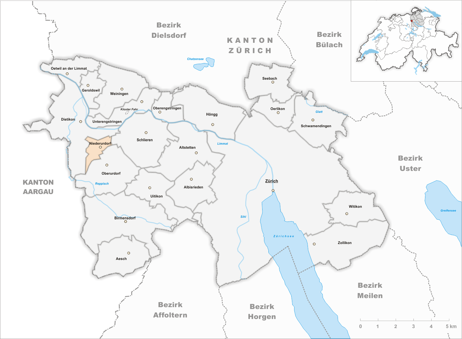 Municipality Niederurdorf